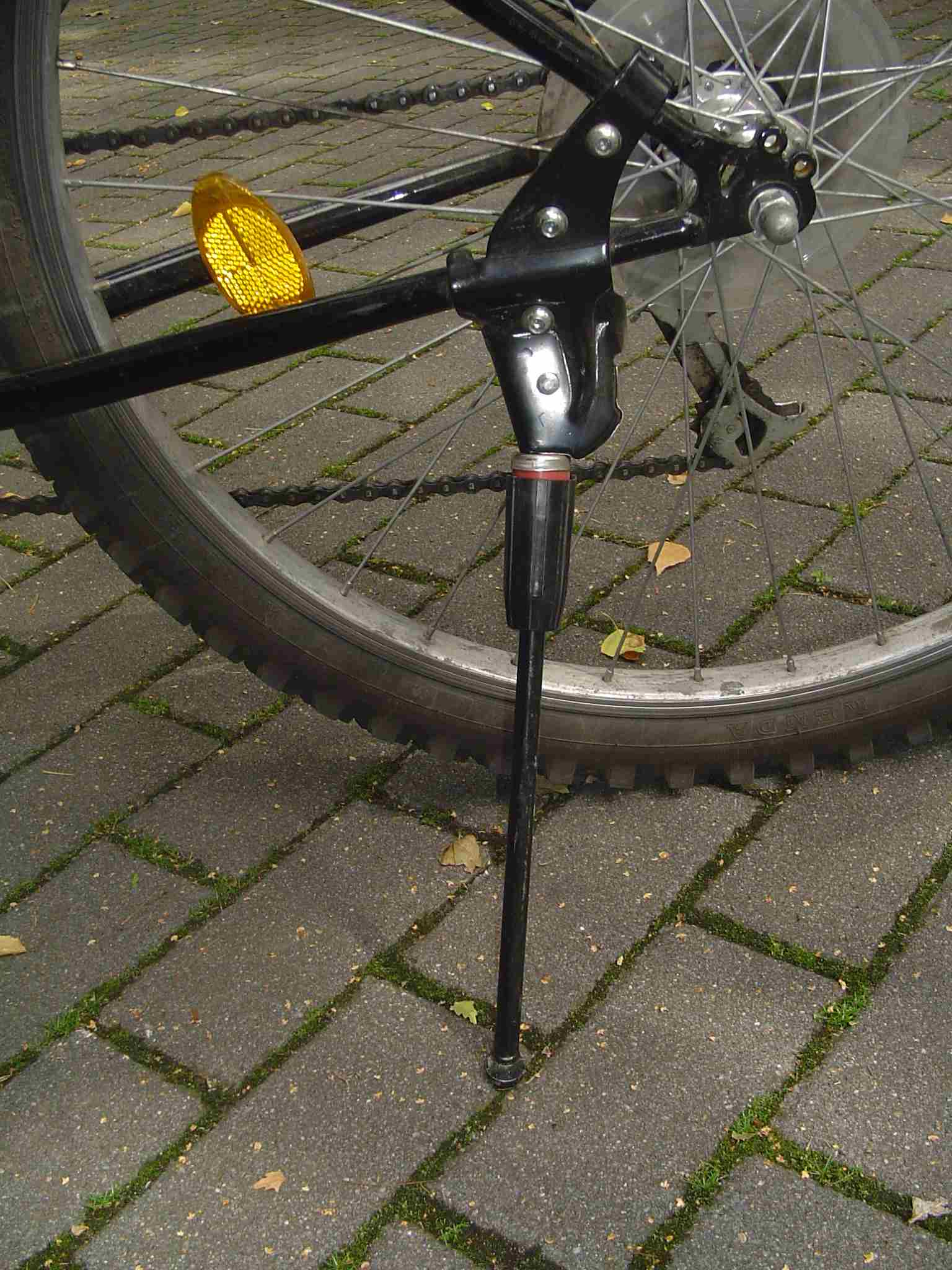 bike stand, rear wheel mount